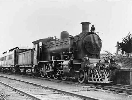 Locomotive K109 hauling the inaugural Better Farming Train in Gippsland, Victoria in October 1924.